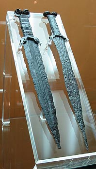 Celtiberian antennas swords. Exhibition "The Celtiberian". Soria, Spain.